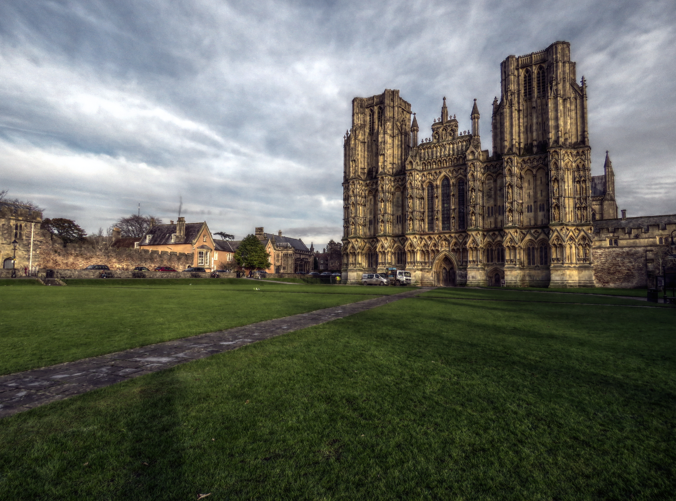 HDR image of Wells Cathedral